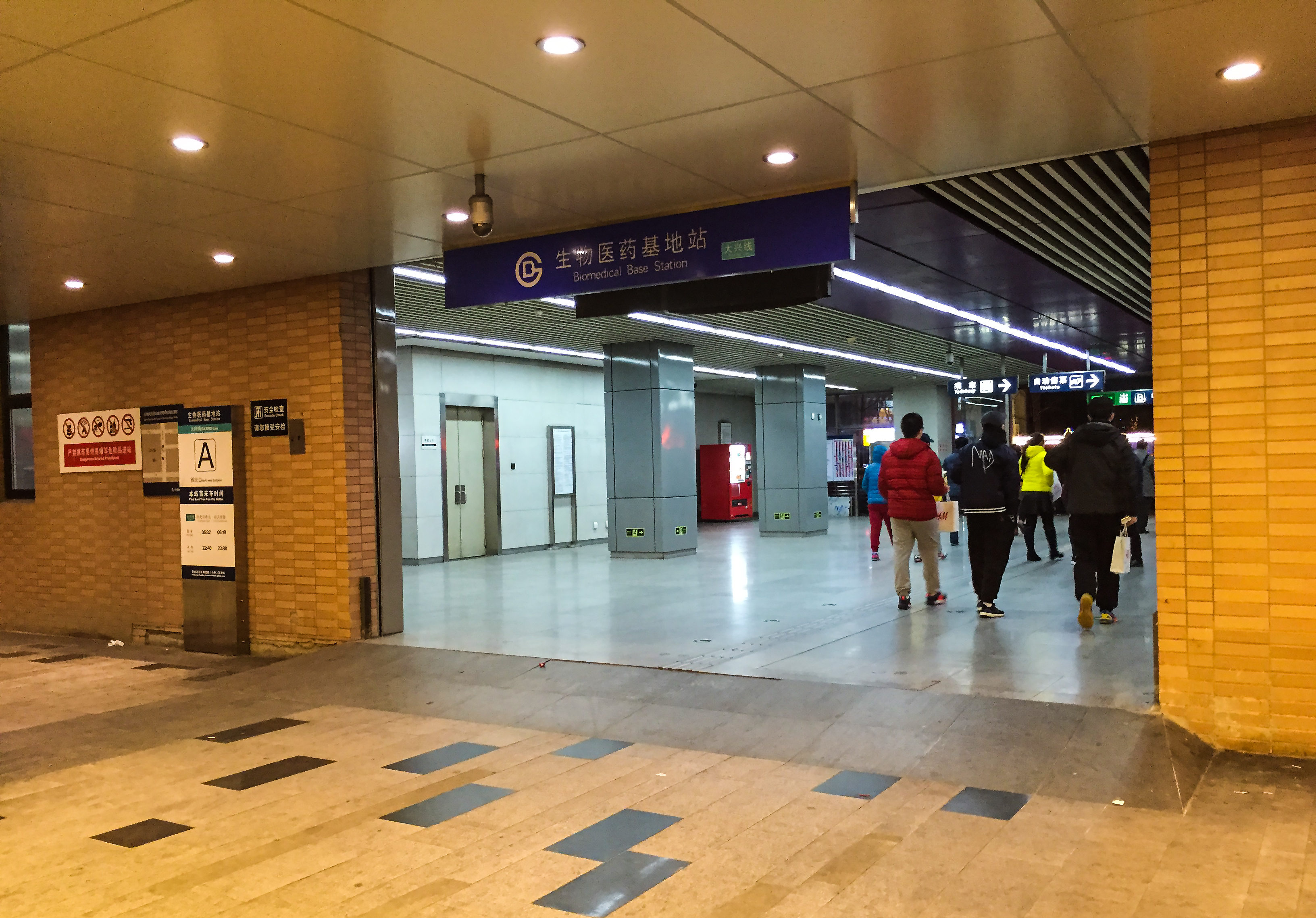 Right on the exit of Paradise Walk, the concourse level is actually on ground floor!